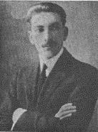 Roberto Urdaneta Arbelaez, Colombian conservative politician, member of Enrique Olaya Herrera's cabinet (1930) and Presidential Designate of Colombia in 1951-1953